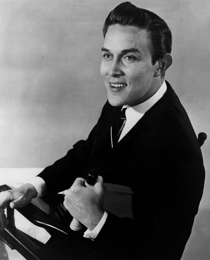 Publicity photo of singer, actor, television presenter and businessman Jimmy Dean.